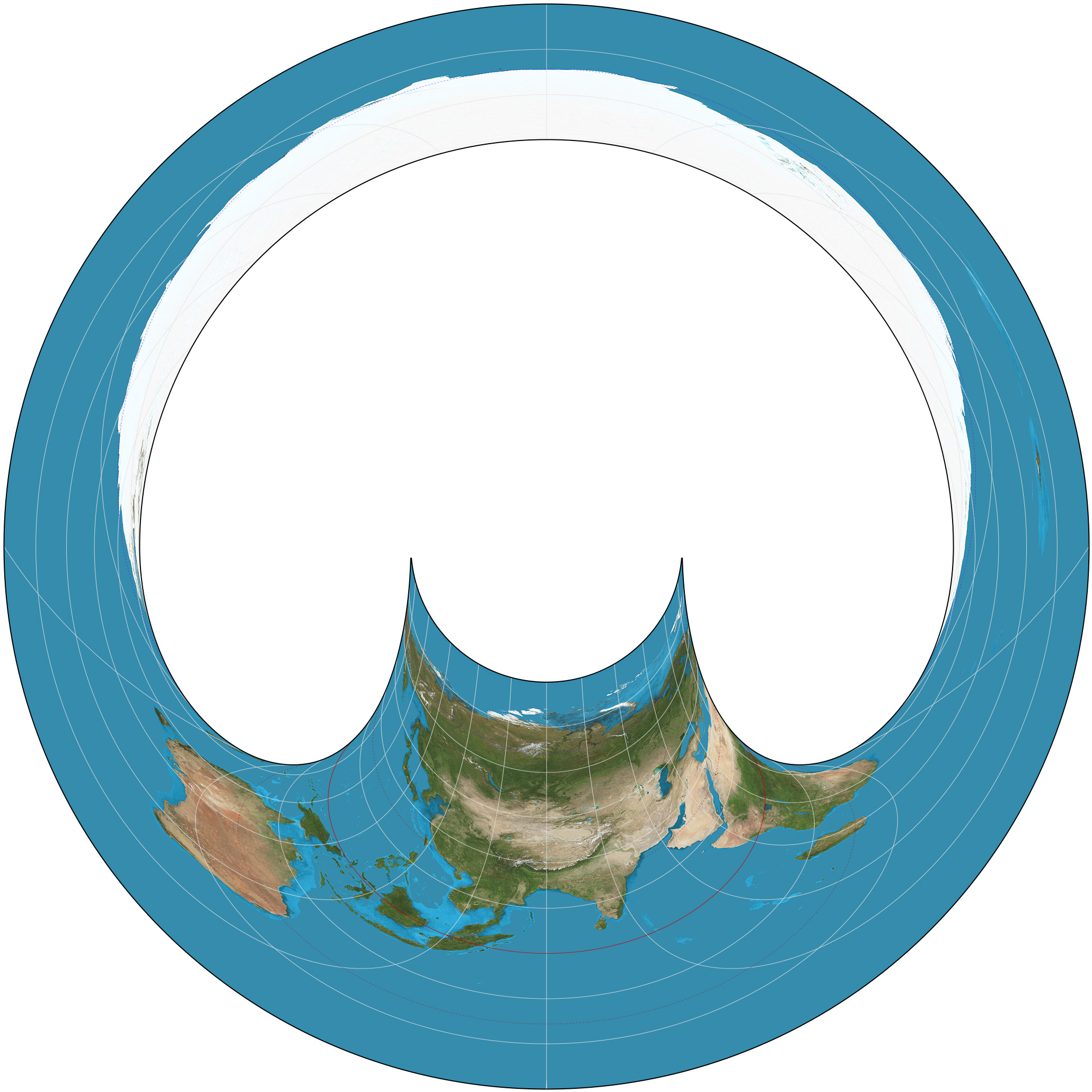 The backside hemisphere of the Hammer retroazimuthal projection. 15° graticule; center point at 90°W, 45°N. Imagery is a derivative of NASA’s Blue Marble summer month composite with oceans lightened to enhance legibility and contrast. Image created with the Geocart map projection software.